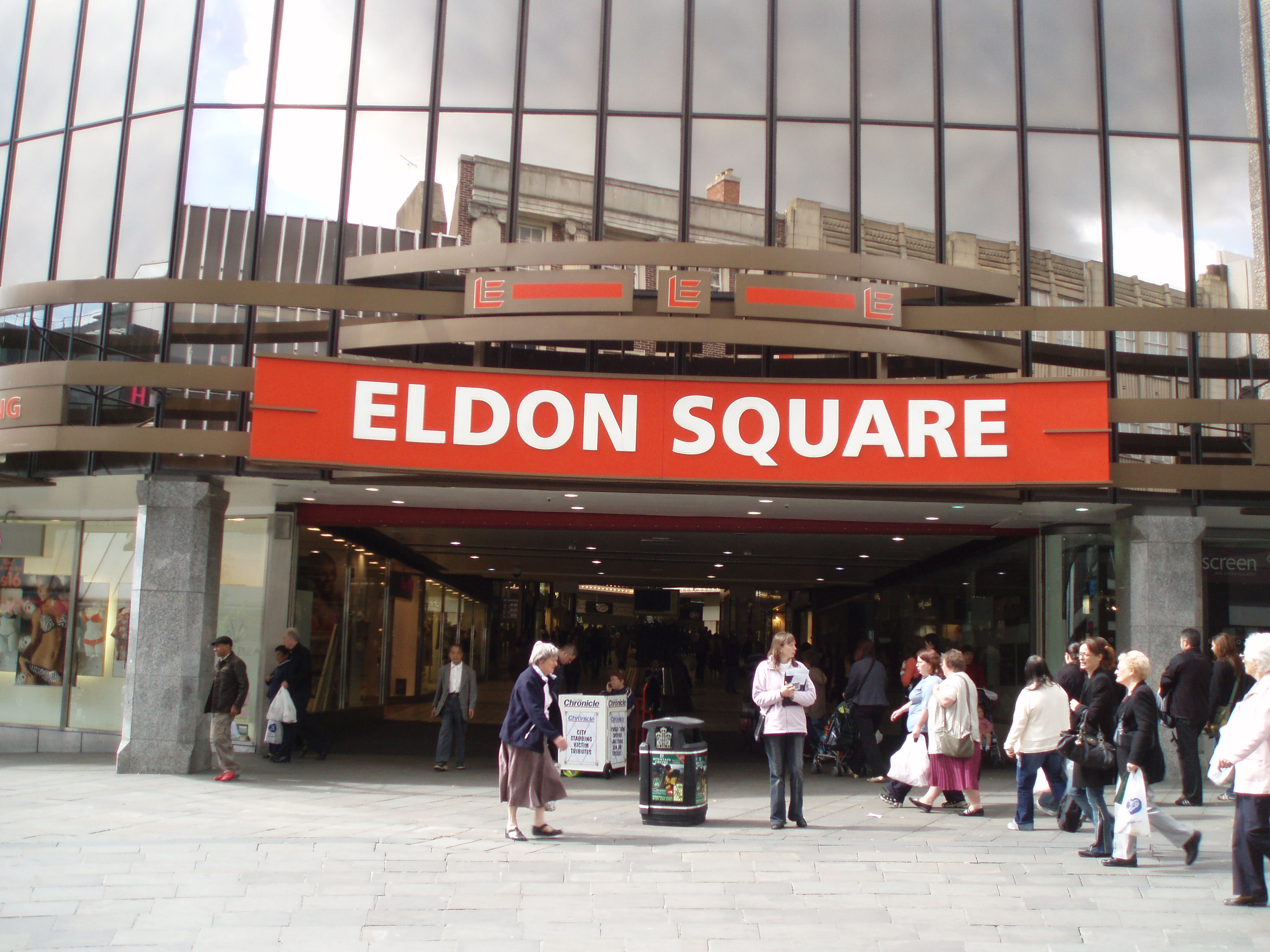 This is the view of the Northumberland Street, entrance to Eldon Square Shopping Centre, Newcastle upon Tyne, England.